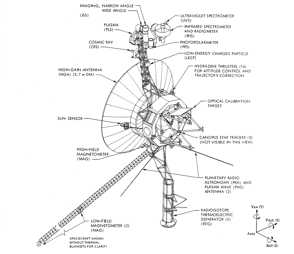 The Voyager spacecraft structure - schematic diagram. The 3.7 metre diameter high-gain antenna (HGA) is attached to the hollow ten-sided polygonal electronics bus, with the spherical tank within containing hydrazine propulsion fuel. The Voyager Golden Record is attached to one of the bus sides. The angled square panel to the right is the optical calibration target and excess heat radiator. The three radioisotope thermoelectric generators (RTGs) are mounted end-to-end on the lower boom. The two planetary radio and plasma wave antenna extend diagonally downwards left and right. The 13 metre long Astromast tri-axial boom extends diagonally downwards left and holds the two low-field magnetometers (MAG); the high-field magnetometers remain close to the HGA. The instrument boom extending upwards holds, from bottom to top: the cosmic ray susbsystem (CRS) left, and Low-Energy Charged Particle (LECP) detector right; the Plasma Spectrometer (PLS) right; and the scan platform that rotates about a vertical axis. The scan platform comprises: the Infrared Interferometer Spectrometer (IRIS) (largest camera at top right); the Ultraviolet Spectrometer (UVS) just above the UVS; the two Imaging Science Subsystem (ISS) vidicon cameras to the left of the UVS; and the Photopolarimeter System (PPS) under the ISS. Suggested for English Wikipedia:alternative text for images: A space probe with squat cylindrical body and a large parabolic radio antenna dish pointing left, a three-element radioisotope thermoelectric generator on a boom extending down, and scientific instruments on a boom extending up. A disk is fixed to the body facing front left. A long tri-axial boom extends down left and two radio antenna extend down left and down right.